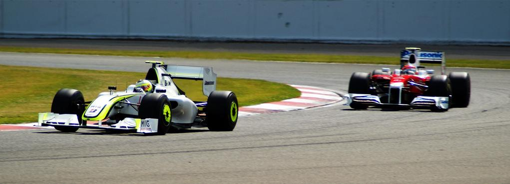 Rubens Barrichello (Brawn GP) leads Timo Glock (Toyota F1) at the 2009 British Grand Prix.